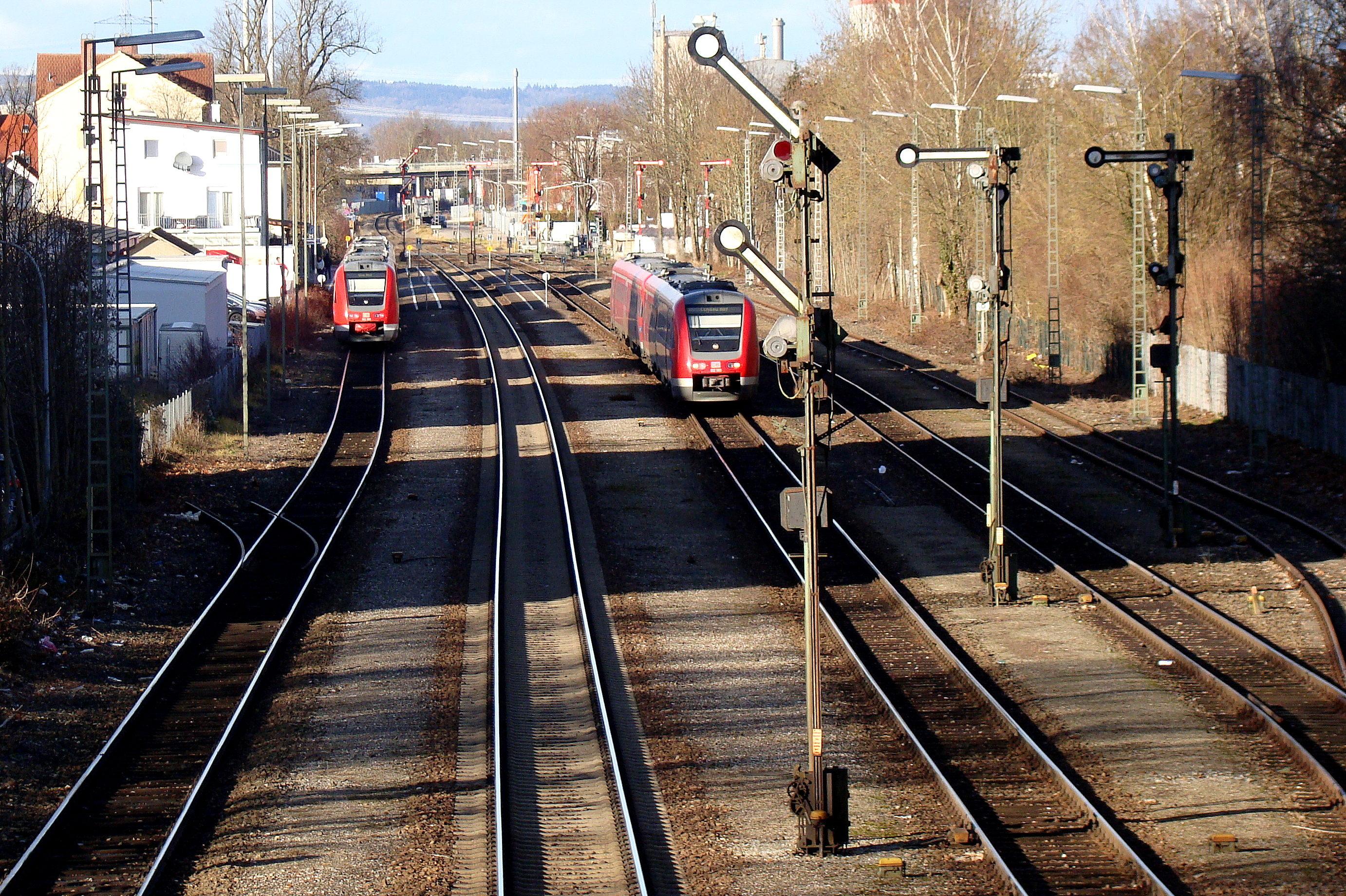 Station Senden, district Neu-Ulm with flying meeting of two railcars class 612